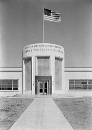 The entrance building of the Curtiss-Wright Corporation, Caldwell, New Jersey, on 8 April 1941.